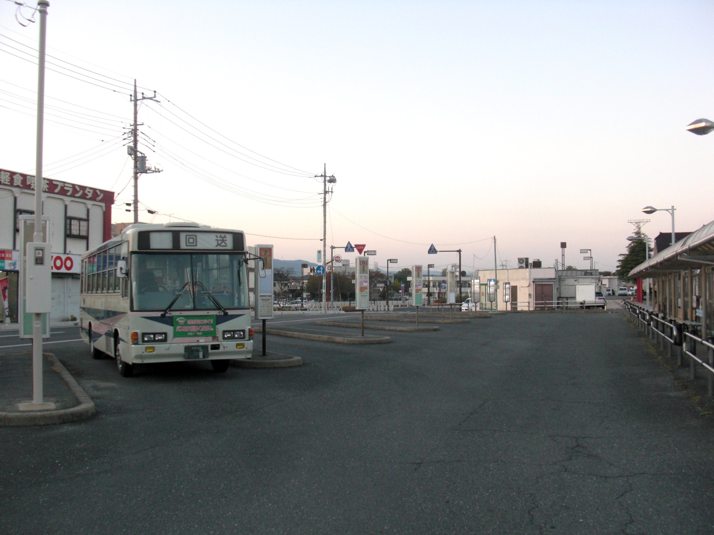 This is a bus turminal in Takahagi, Ibaraki, Japan.